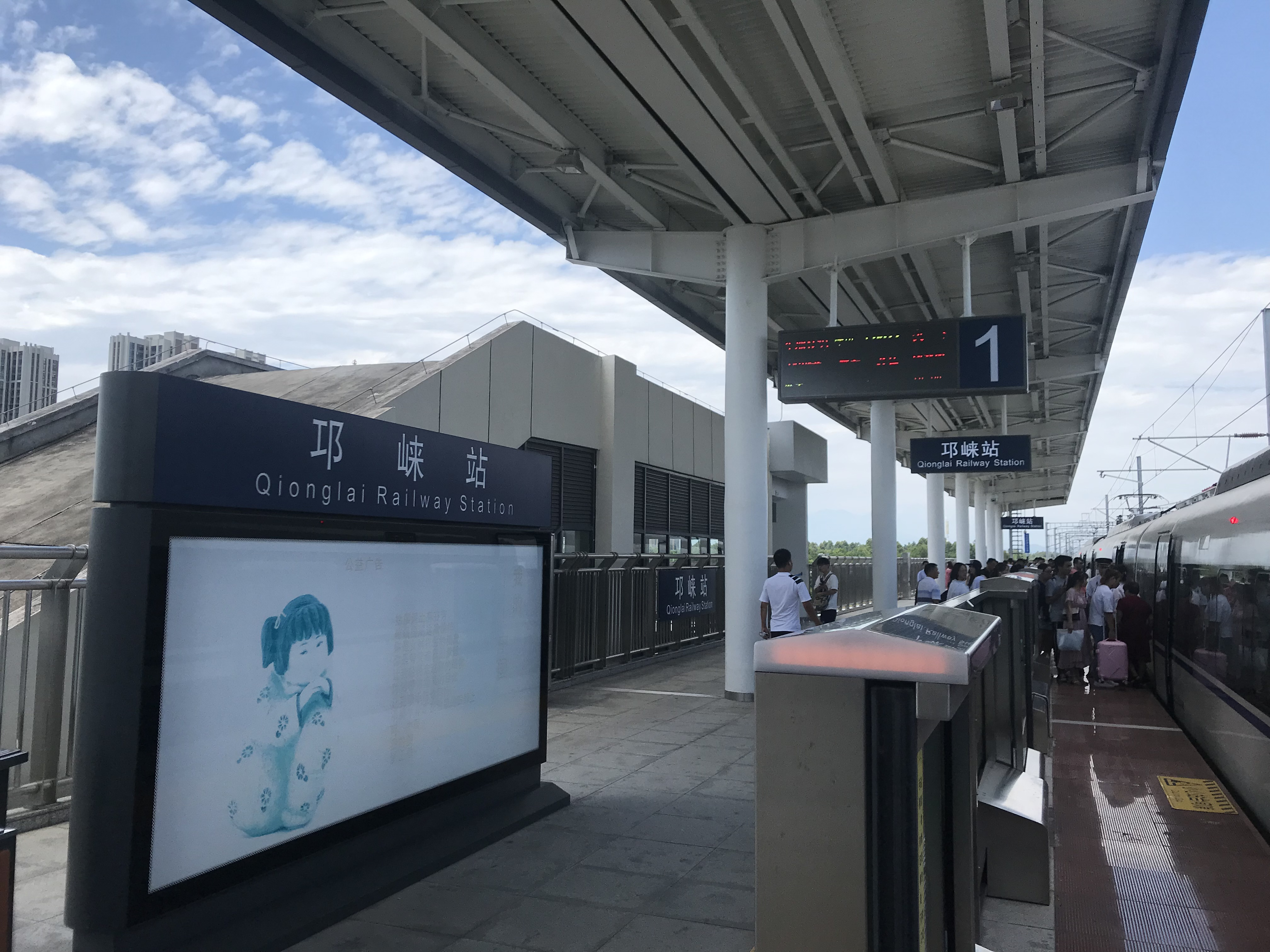 201908 Platform 1 of Qionglai Station